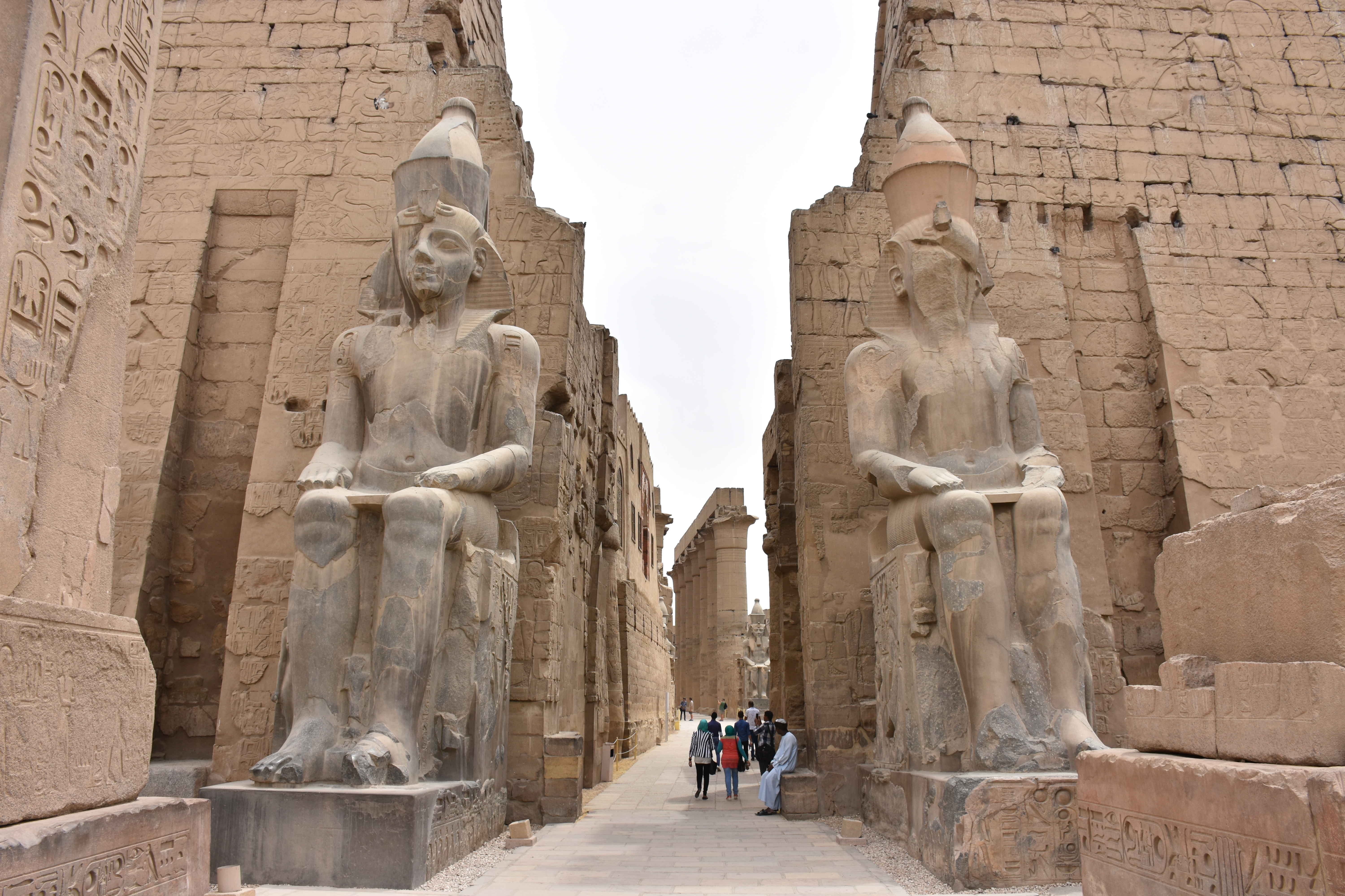 Entrance to the Luxor Temple in Egypt